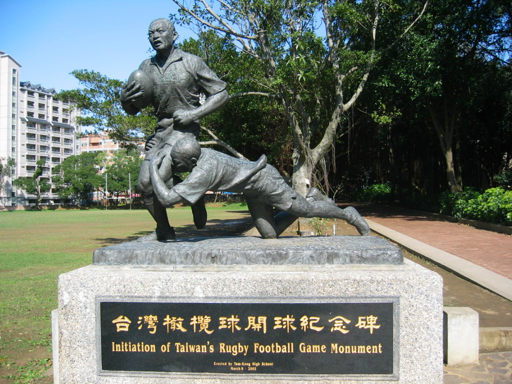 Initiaion of Taiwan's Rugby Football Game Monument.